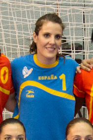 Spain women's national handball team at the Handball All Star Game 2013, held in San Sebastián de los Reyes, Madrid, Spain.